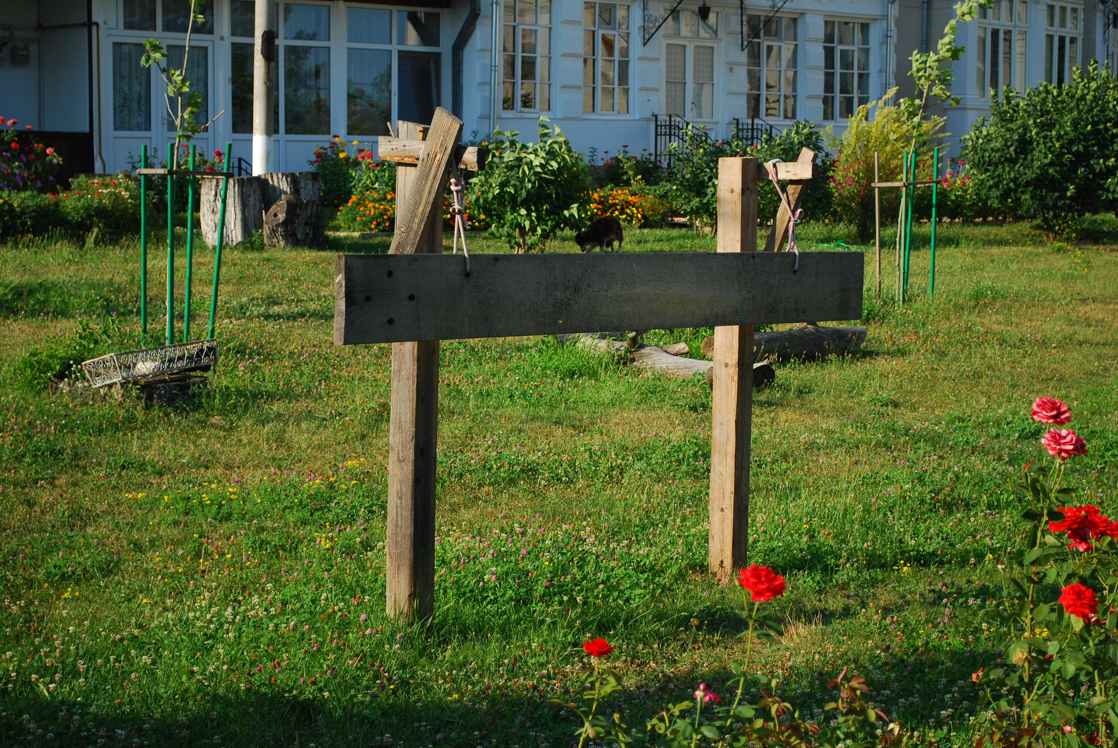 Semantron at the Pasărea monastery, Ilfov County, Romania